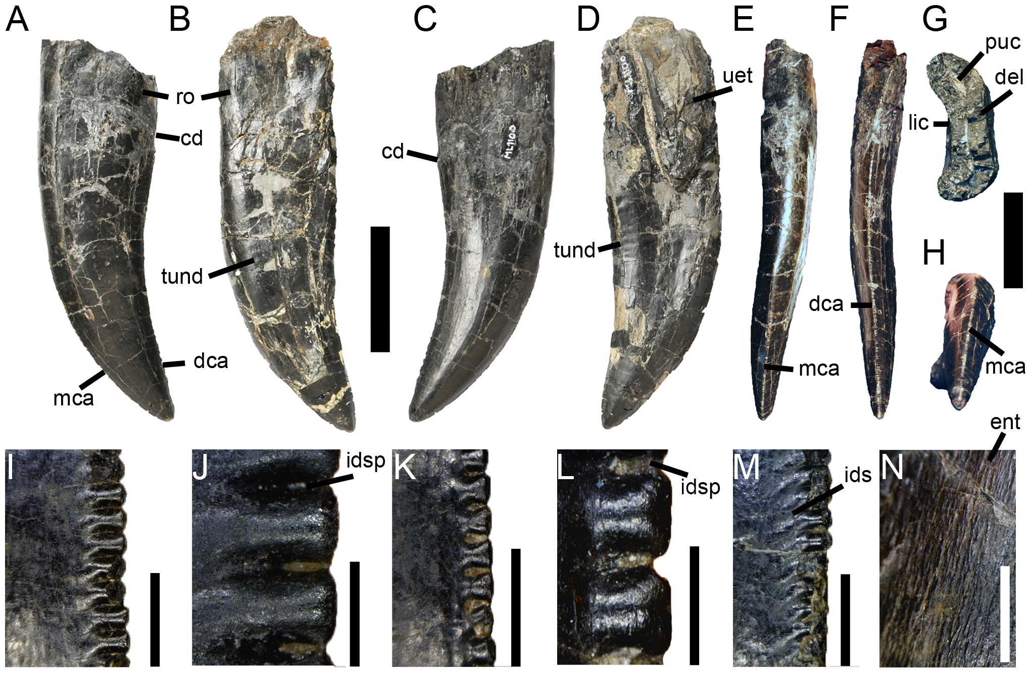 Dentition of Torvosaurus gurneyi (ML 1100). A, C, E–H, Second maxillary tooth; and B, D, third non-erupted maxillary tooth of the holotype specimen of Torvosaurus gurneyi in A–B, labial; C–D, lingual; E, mesial; F, distal; G, basal; and H, apical views. I–J, Distal; and K–M, mesial denticles of the second maxillary tooth in lateral view. M, Distal serrations showing the interdenticular sulci; and N, enamel texture of the third non-erupted tooth in labial view. Abbreviations: cd, cervix dentis; dca, distal carina; del, dentine layer; ent, enamel texture; ids, interdenticular sulci; idsp, interdenticular space; mca, mesial carina; lic, lingual concavity for the erupting tooth; puc, pulp cavity; ro, root; uet, unerupted tooth; und, transversal undulation. Scale bars = 5 cm (A–F), 3 cm (G–H), 3 mm (I, K, M–N), 1 mm (J, L).